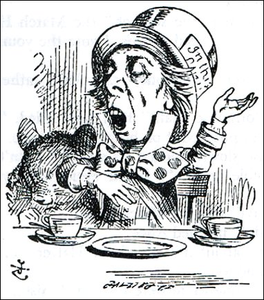 The Hatter, illustration by John Tenniel